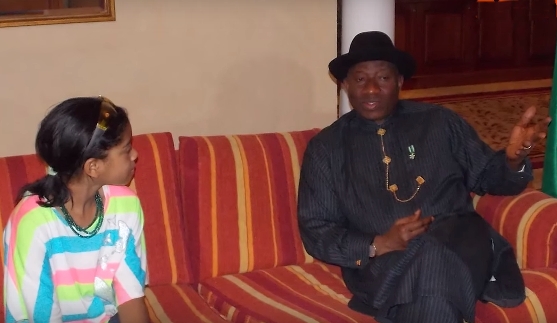 Zuriel Oduwole, one of the youngest interviewers in the world today on NdaniTV Sptotlight 8 Jan 2015